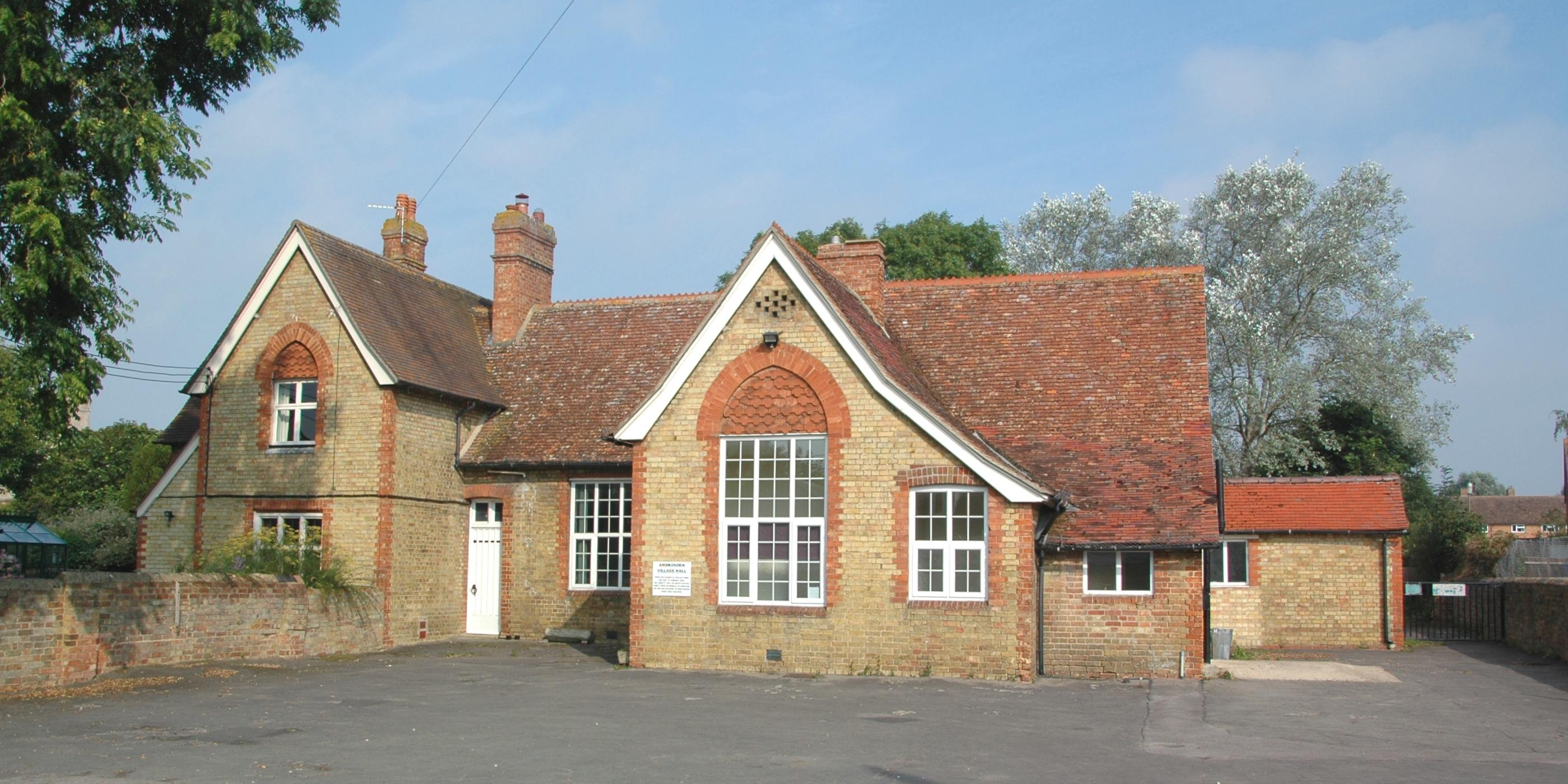 Old School, Merton Road, Ambrosden, Oxfordshire